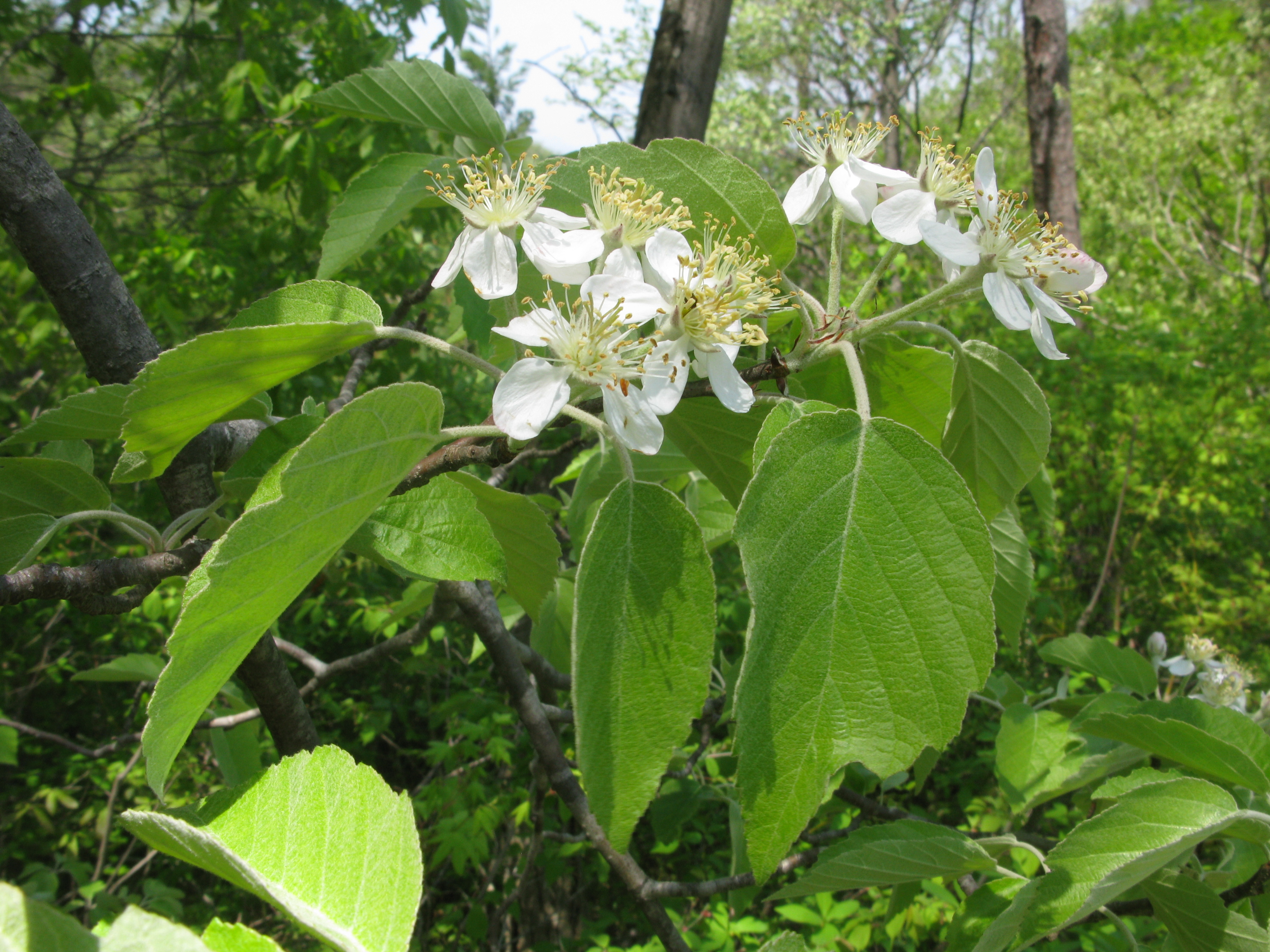 Malus tschonoskii,Aizu area, Fukushima pref., Japan